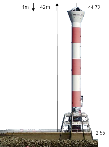 Diagram Dimensions